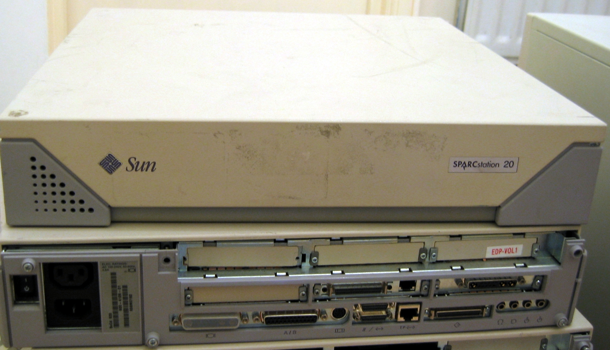 Sun SPARCstation 20 Unix workstation